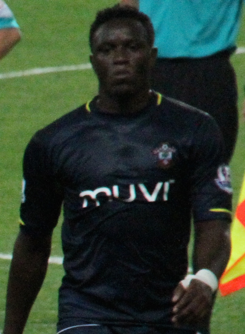 Victor Wanyama playing for Southampton FC in 2014